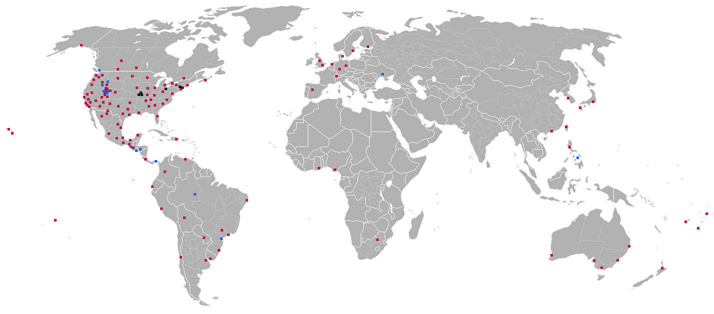 Map indicating the location of temples of The Church of Jesus Christ of Latter-day Saints: Operating temple Temple planned or under construction Former temple or proposed site for a planned temple where efforts have been suspended Accurate to 20 November 2007.